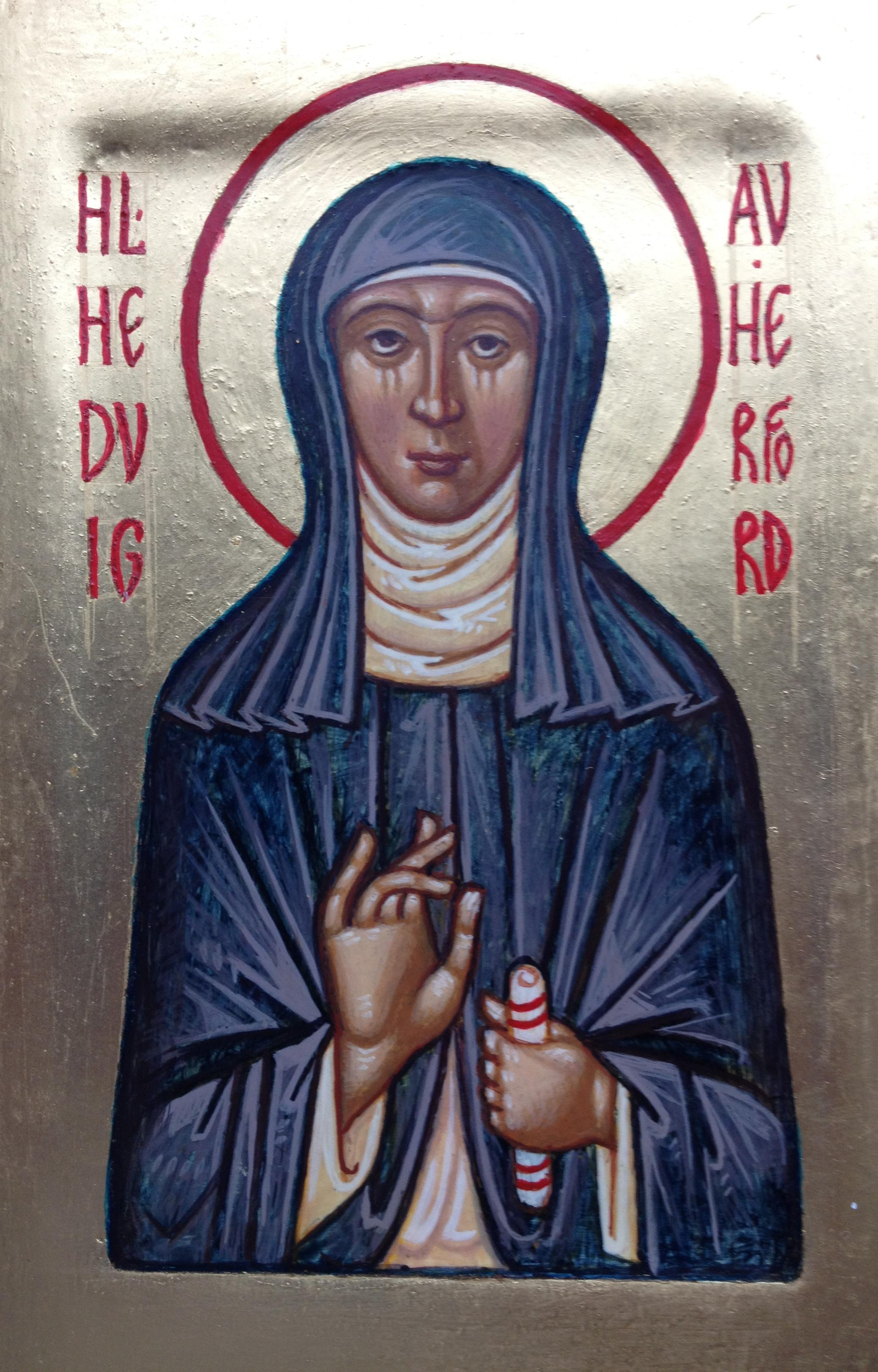 Icon of St. Hedwig of Herford